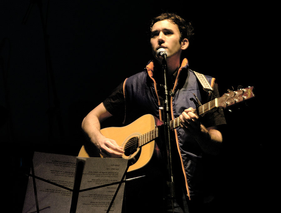 Sufjan Stevens at the Independent Music Awards, Webster Hall, New York City